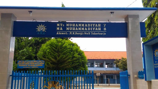 Perguruan Muhammadiyah Takerharjo Solokuro Lamongan